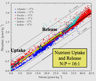 Own work